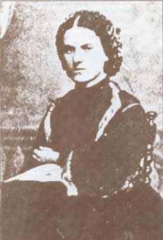 Giuseppina Raimondi (1841-1918), Garibaldi's second wife